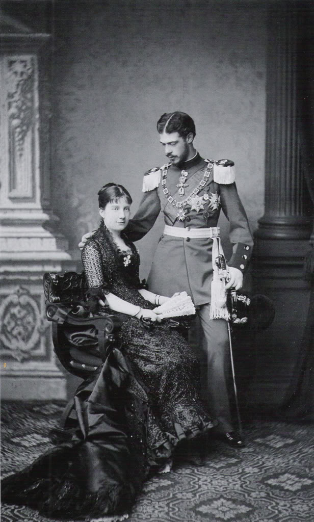 Engagement photo of Infanta Paz of Spain